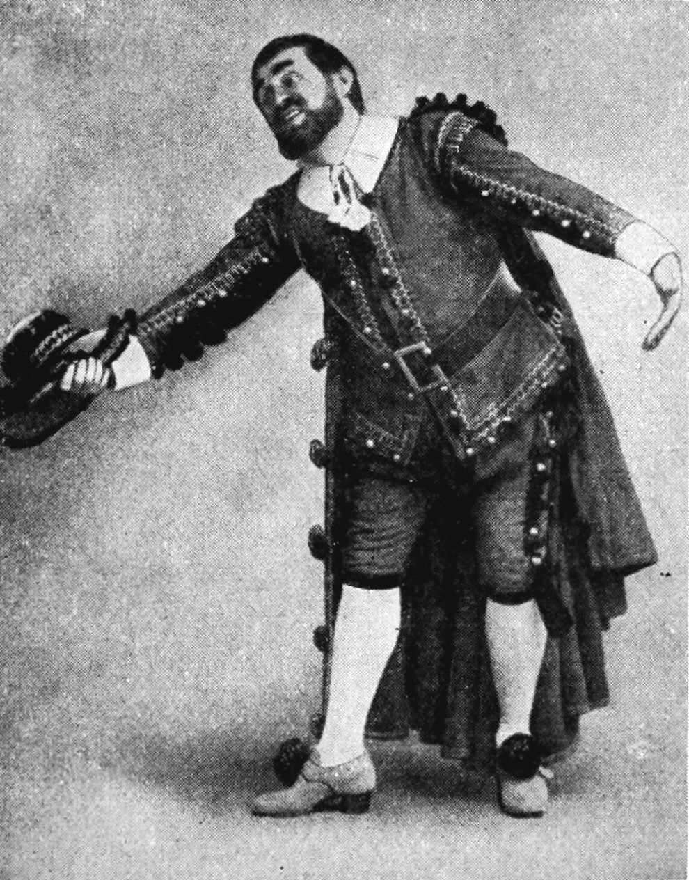 Mozart - Don Giovanni - Leporello - Cliche du Guy Title: The Victrola book of the opera : stories of one hundred and twenty operas with seven-hundred illustrations and descriptions of twelve-hundred Victor opera records Year: 1917 (1910s) Authors: Victor Talking Machine Company Rous, Samuel Holland Subjects: Operas Publisher: Camden, N.J. : Victor Talking Machine Co. Text Appearing Before Image: S DON GIOVANNI Text Appearing After Image: CLICHE DU GUY LEPORELLO Donna Elvira is horrified and drives off, swearing vengeance. 01 VICTROLA BOOK OF THE OPERA — MOZARTS DON GIOVANNI SCENE III—In the Suburbs of Seville. Don GiovannisPalace Visible on the Right A rustic wedding party comprising Zerlina, Masettoand a company of peasants are enjoying an outing.Don Giovanni and Leporello appear, and the Don ischarmed at the sight of so much youthful beauty. Hebids Leporello conduct the party to his palace and givethem refreshments, contriving, however, to detainZerlina. Masetto protests, but the Don points signifi-cantly to his sword and the bridegroom prudentlydecides to follow the peasants. The Don then proceeds to flatter the young girland tells her she is too beautiful for such a clown asMasetto. She is impressed and coquettes with him inthe melodious duet, La ci darem, the witty phrases anddelicate harmonies of which make it one of the gemsof Mozarts opera. La ci darem la mano (Thy LittleHand, Love!) By Geraldine Farrar, S